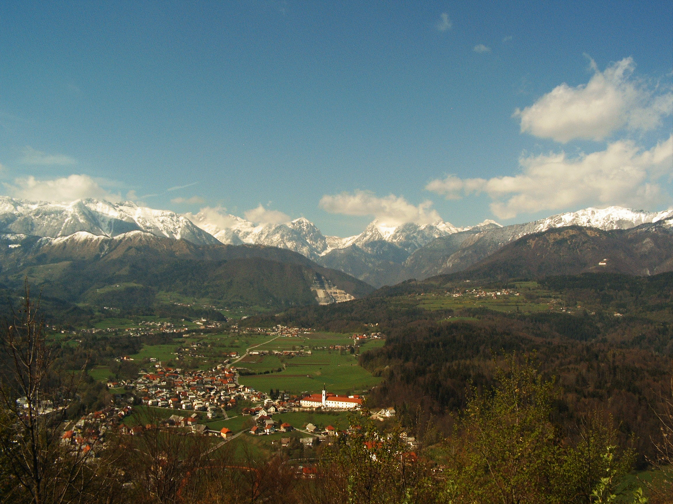 A picture of the upper portion of the Kamniška Bistrica river valley including Mekinje, Stranje and Godič with a portion of the Kamnik Alps in the background taken from Stari Grad above Kamnik.